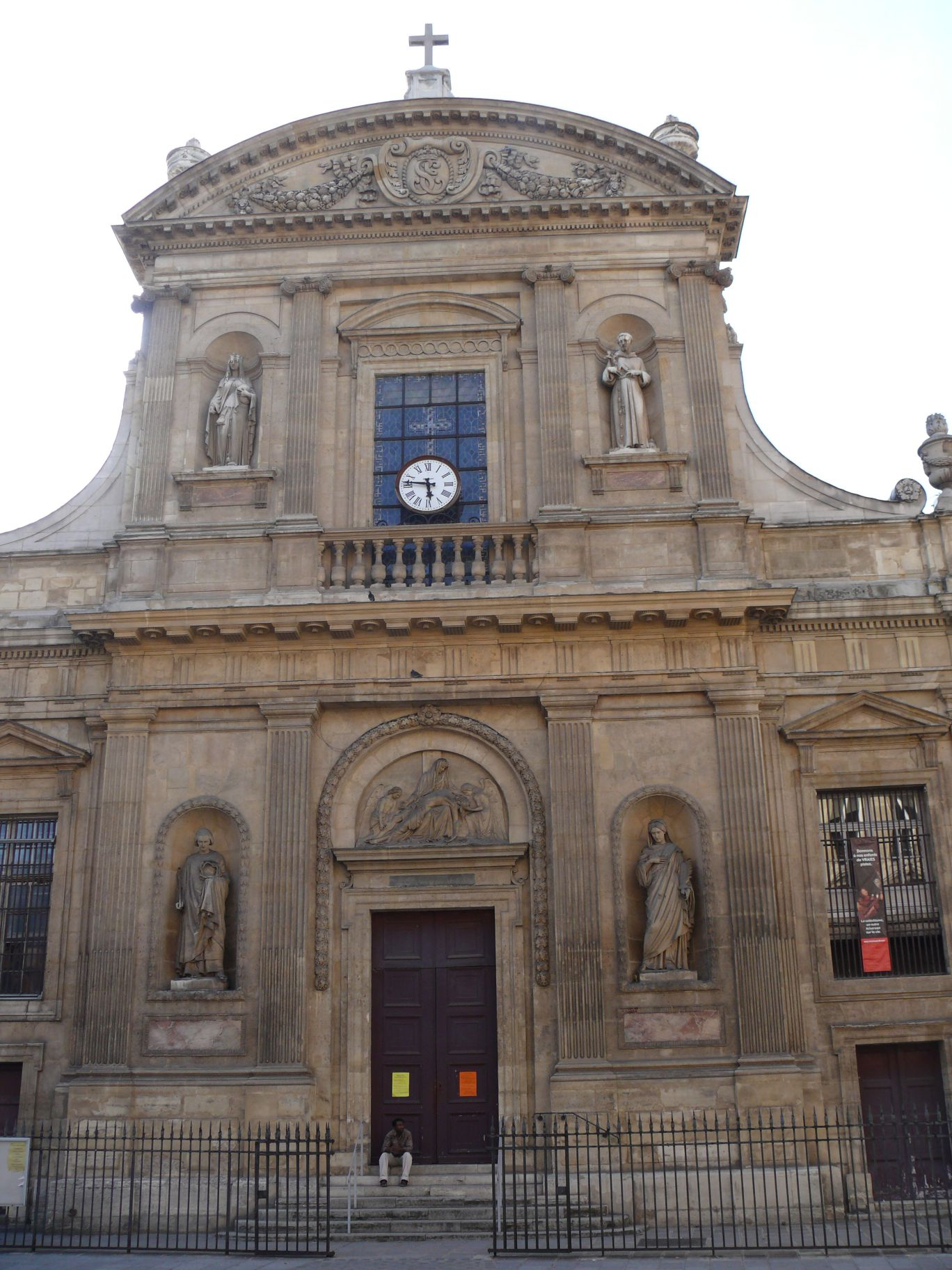 Sainte-Élisabeth-de-Hongrie's church, in Paris (Paris III, France)